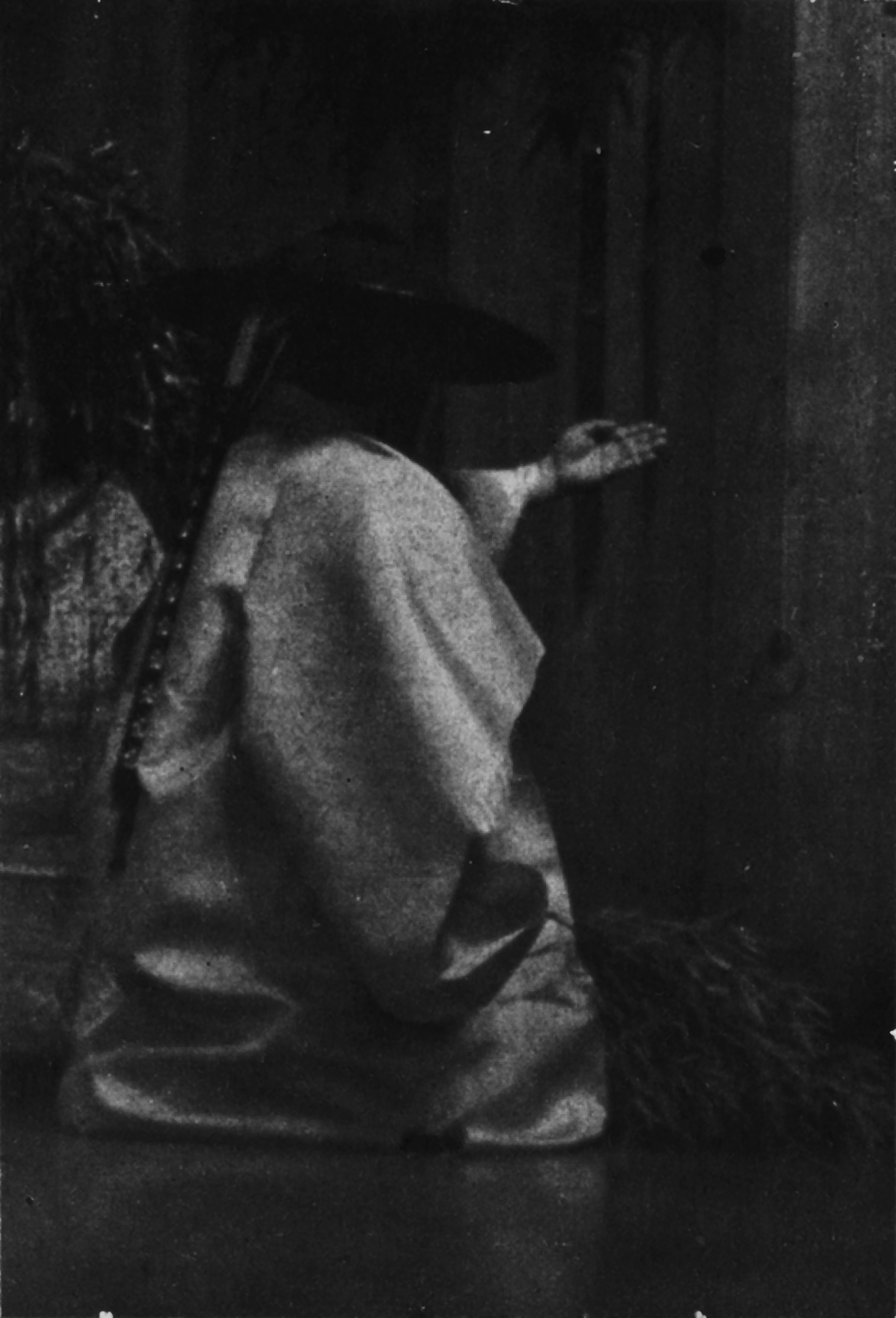 stage photo: Noh play Sumidagawa, KITA Roppeita(14th)